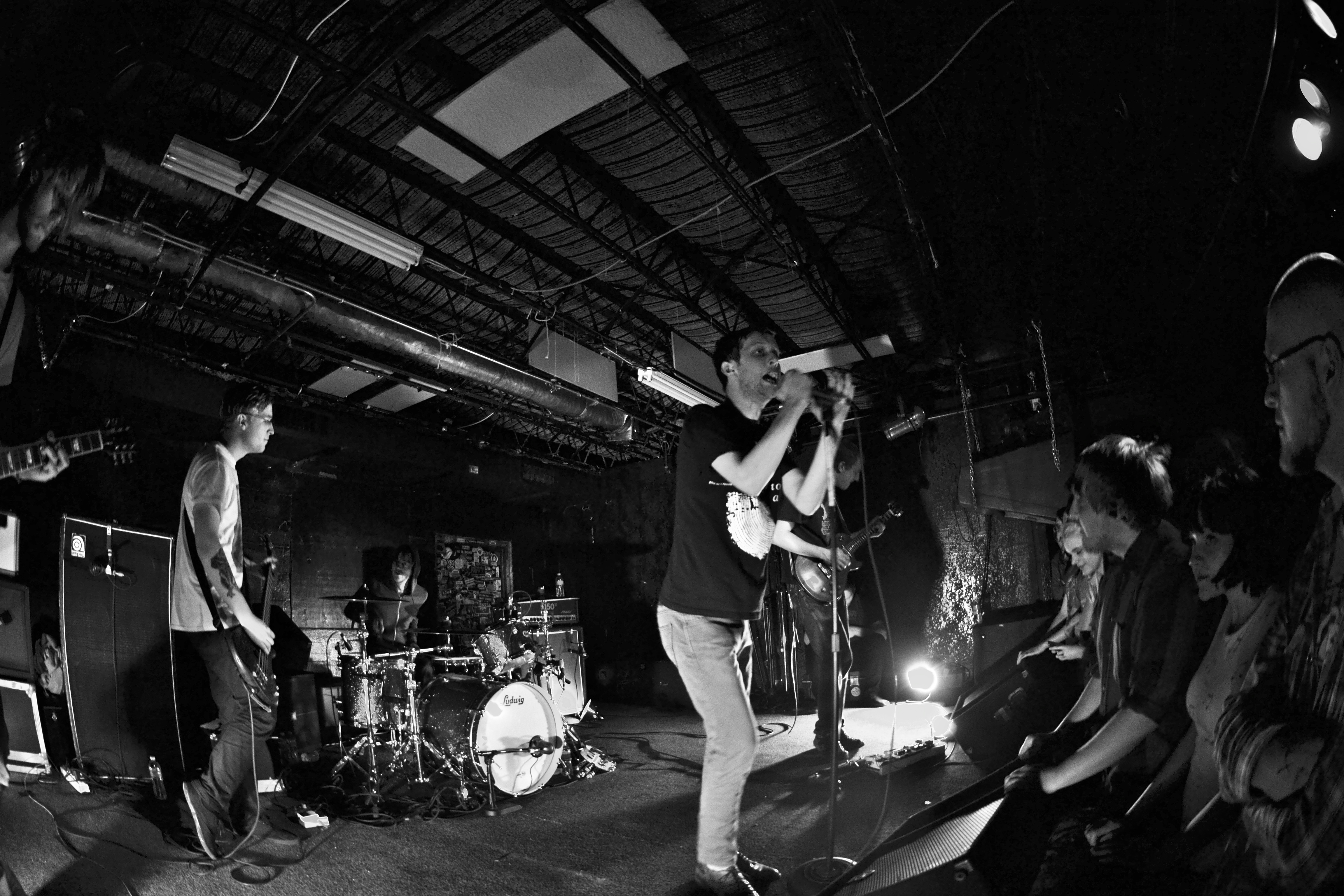 La Dispute play live at the County Center in Iowa City, Iowa, United States, 2012. (from left to right); Adam Vass, Brad Vander Lugt, Jordan Dreyer, Kevin Whittemore. Chad Sterenberg is partially visible on the far left.